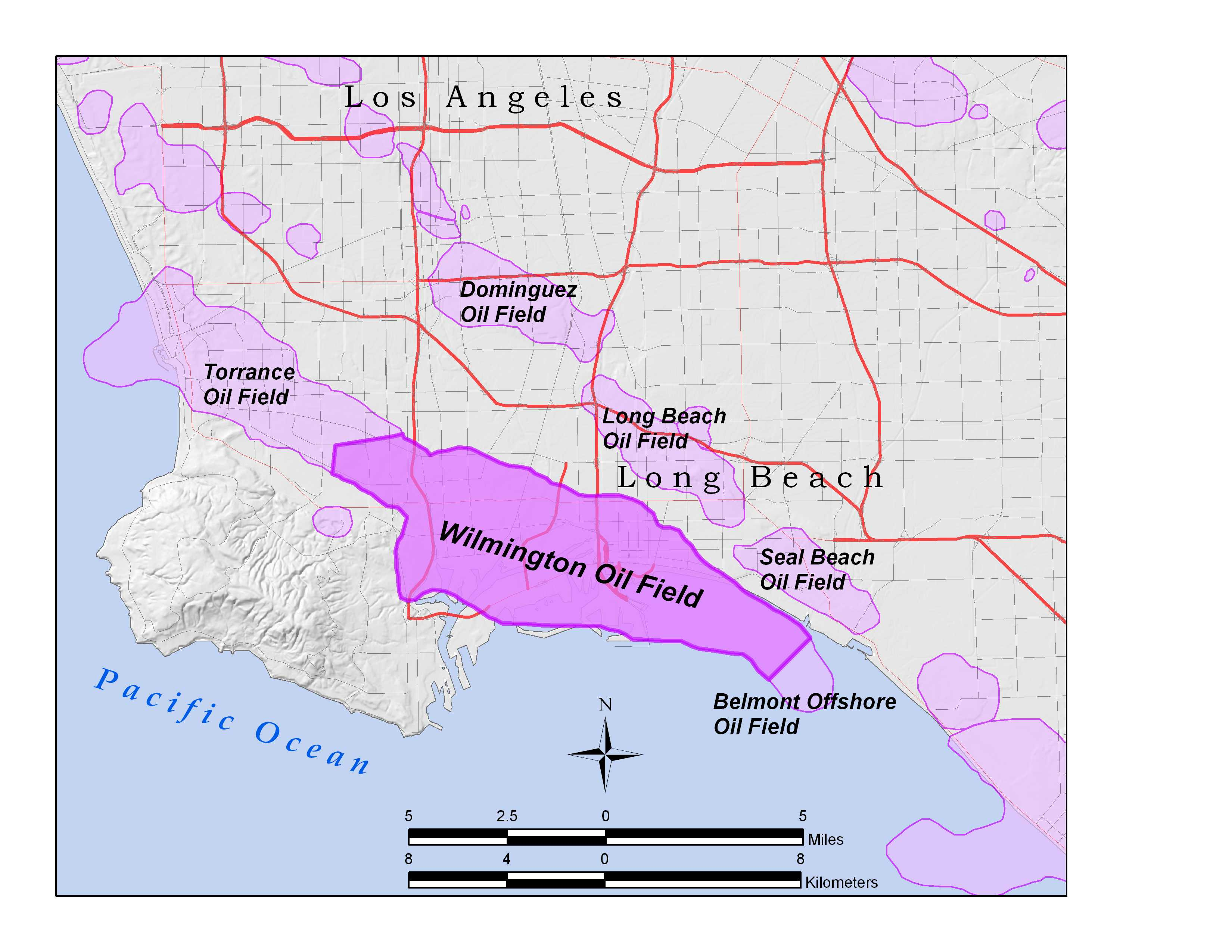 Wilmington Oil Field within the Los Angeles Basin, California, U.S. All data shown on this map is in the public domain. Created by User:Antandrus using ArcGIS 9.2; data sources include US census TIGER data (2000), USGS national elevation dataset, and California Department of Natural Resources file of oil field boundaries.